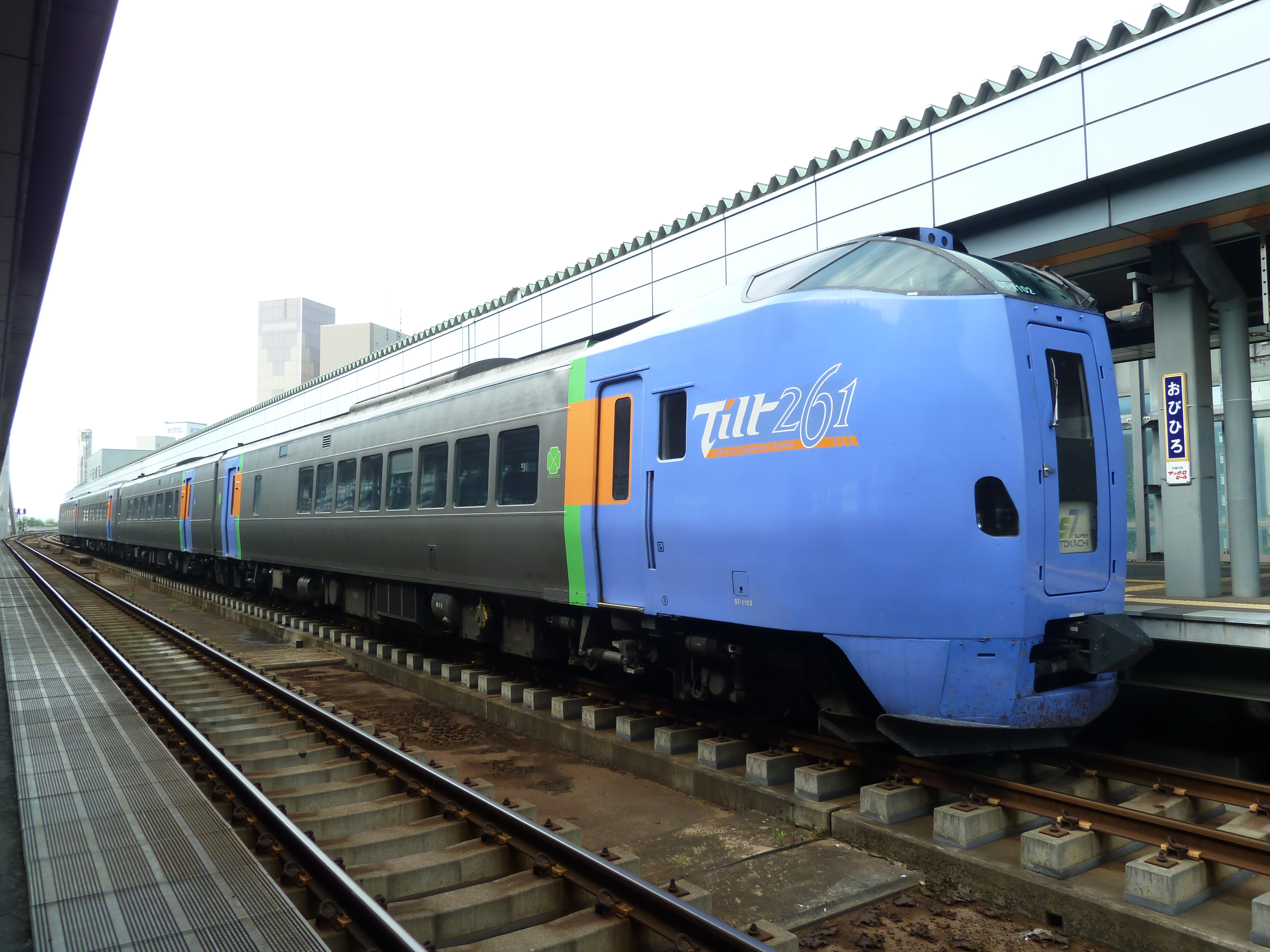 JR Hokkaido KiHa 261-1000 series 4-car DMU on a Super Tokachi limited express service at Obihiro Station